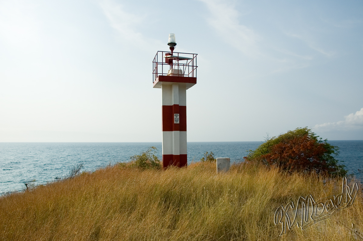 Farol da Lagua Azul, a lighthouse in the northern part of São Tomé and Príncipe near Azul Lagoon. According to a sign, it was established in 1997.